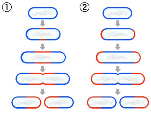 Schematic diagram of cellular growth (elongation) and binary fission of bacilli. Blue and red lines indicate old and newly-generated bacterial cell wall, respectively. (left) growth at the center of bacterial body. e.g. Bacillus subtilis, E. coli, and so on. (right) apical growth. e.g. Corynebacterium diphtheriae.